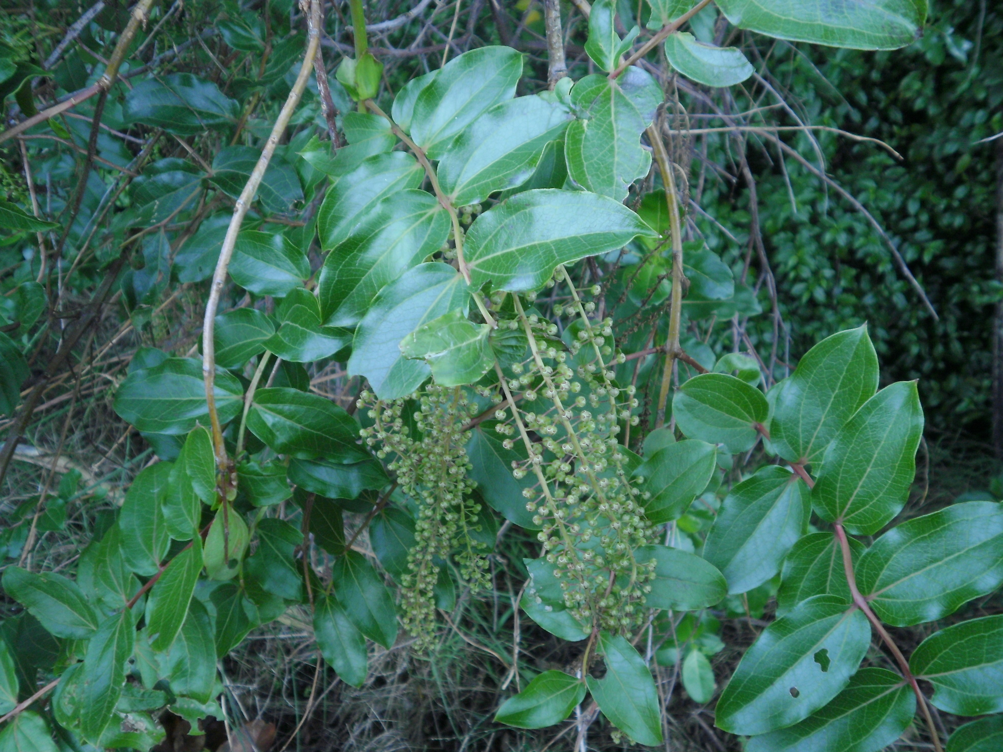 Coriaria arborea, tutu, native plant of New Zealand.